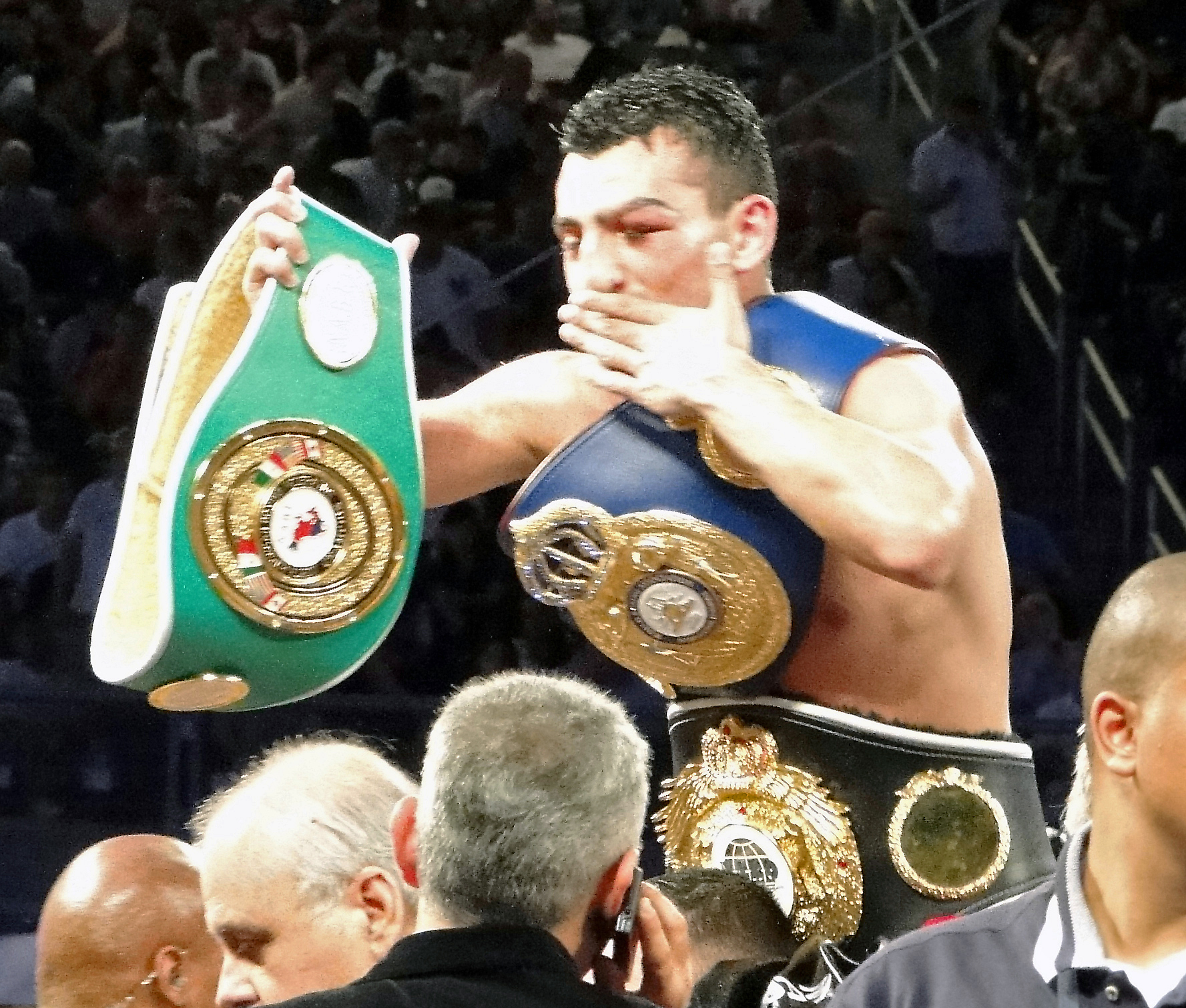 Vanes Martirosyan at the Yankee Stadium on June 5, 2010.